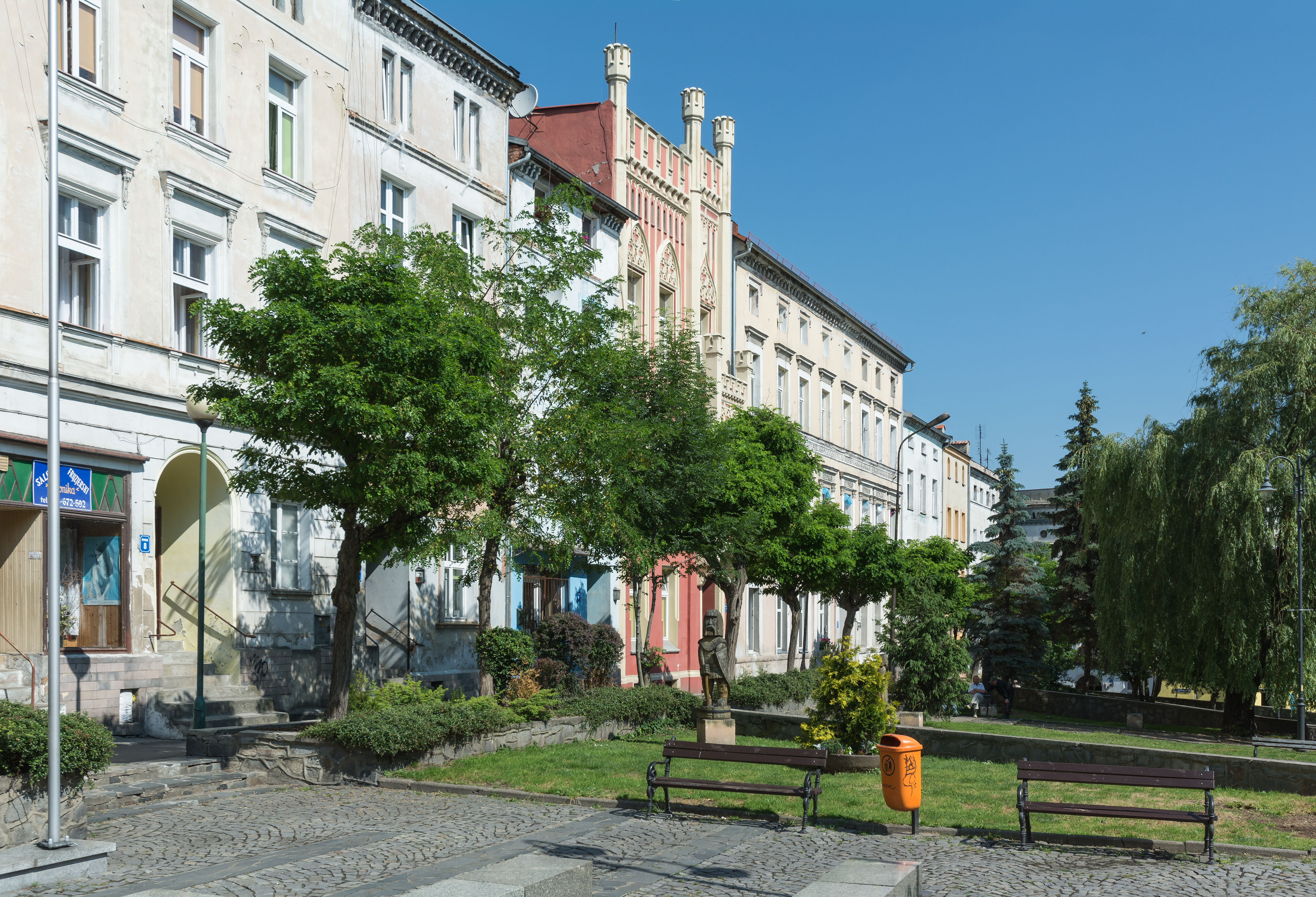 Market Square in Niemcza